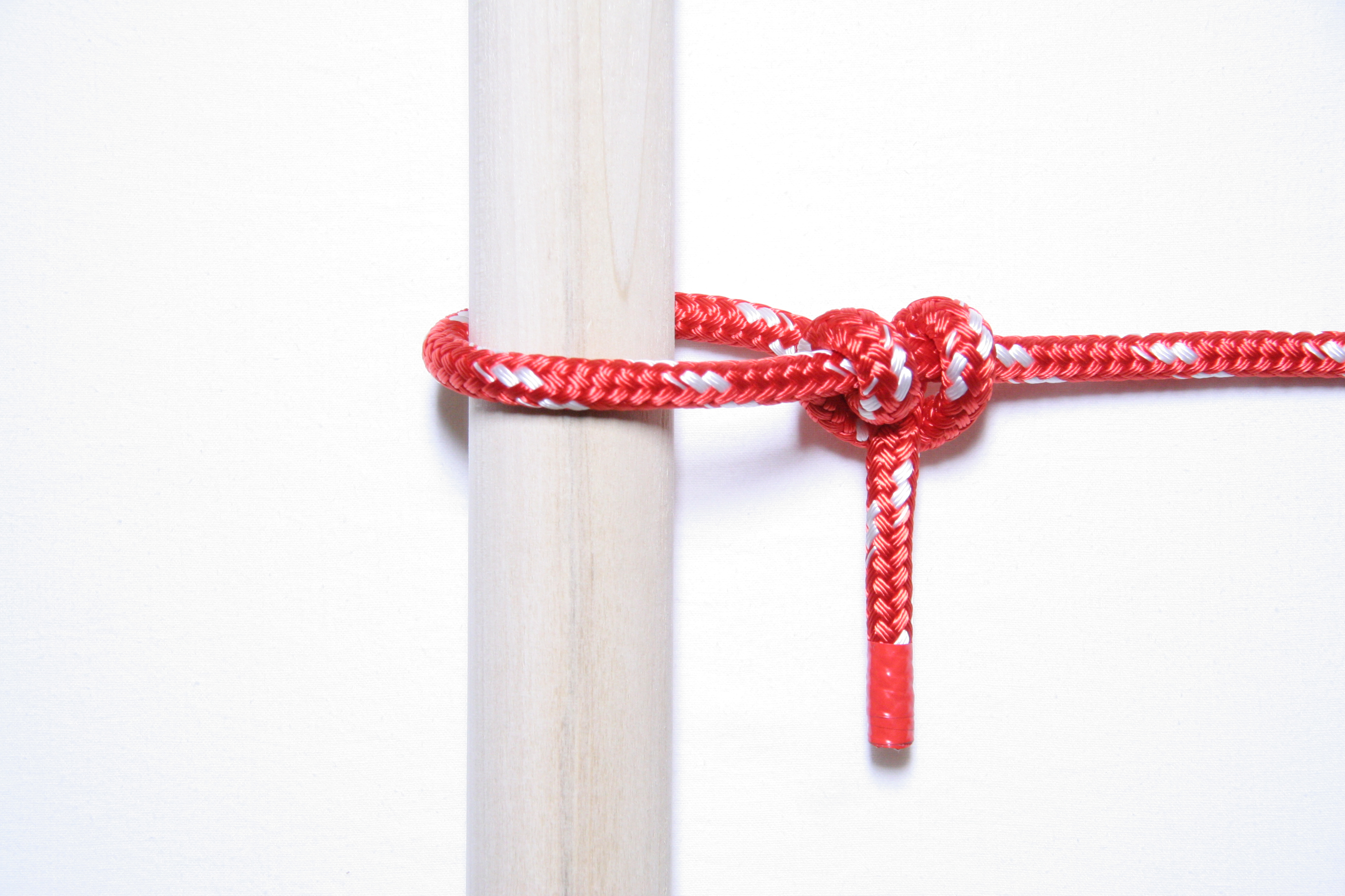 Two Half Hitches are used to create a binding knot for mooring.